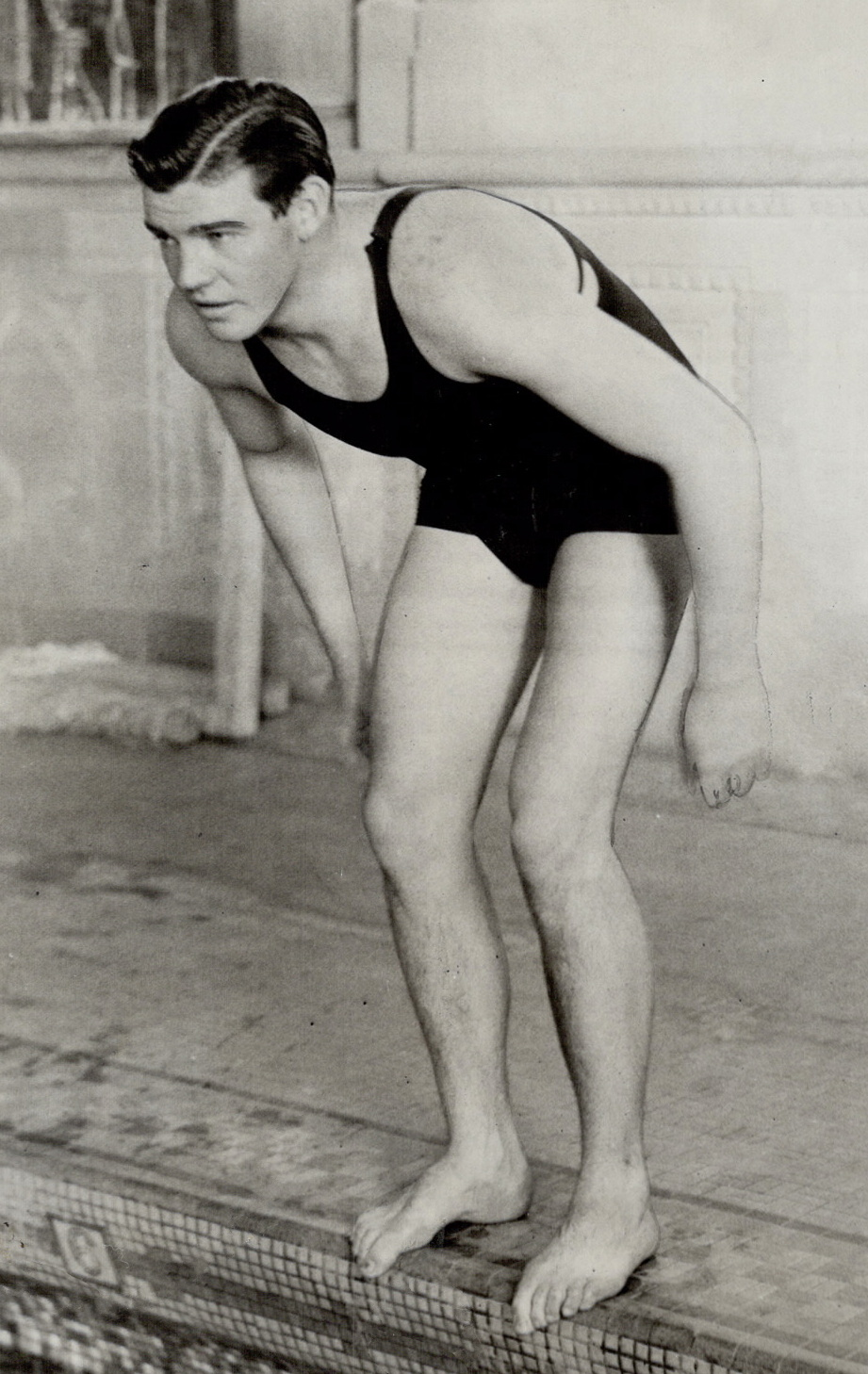 Swim stars meet on Friday. Univesity of Michigan swimmers; American intercollegiate champions; invade Canada for the first time this season when they oppose an array of Ontario all-stars at Central Y.M.C.A. Friday night. Feature of the outstanding bill will be the 440-yard event between Bob 'Boy' Pirie; generally regarded as Canada's chief bet in the 1936 Olympics; and Tex Robertson. American intercollegiate record-holder; for the distance.